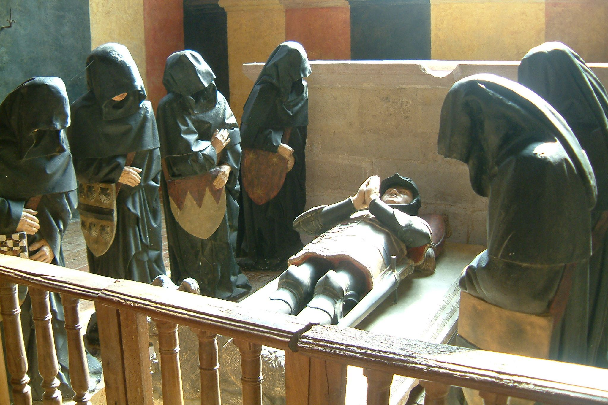 Chateauneuf castle, Chateauneuf, Bourgogne, France